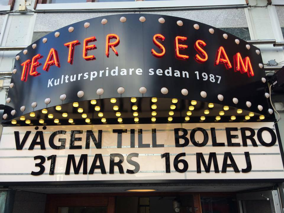 Teater Sesam 2015